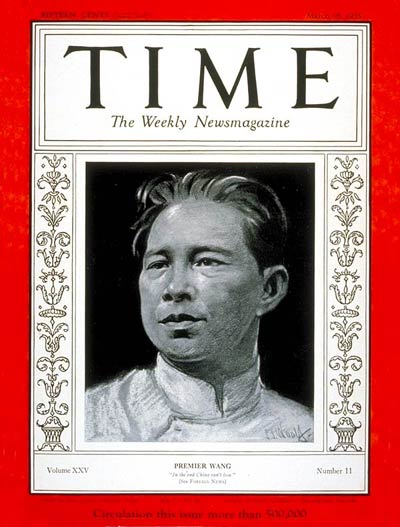 Time magazine, Mar. 18, 1935. The cover shows Wang Jingwei.